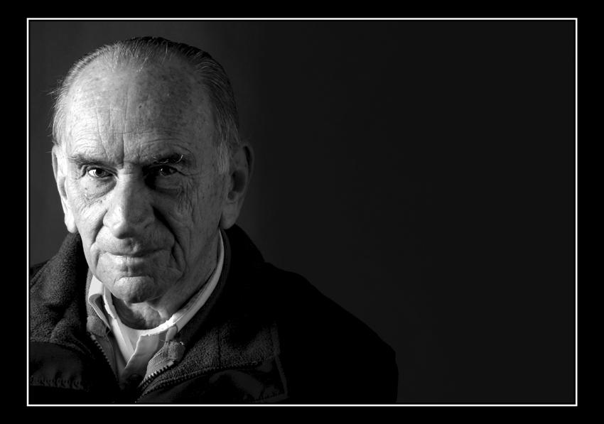 My portrait of my Father